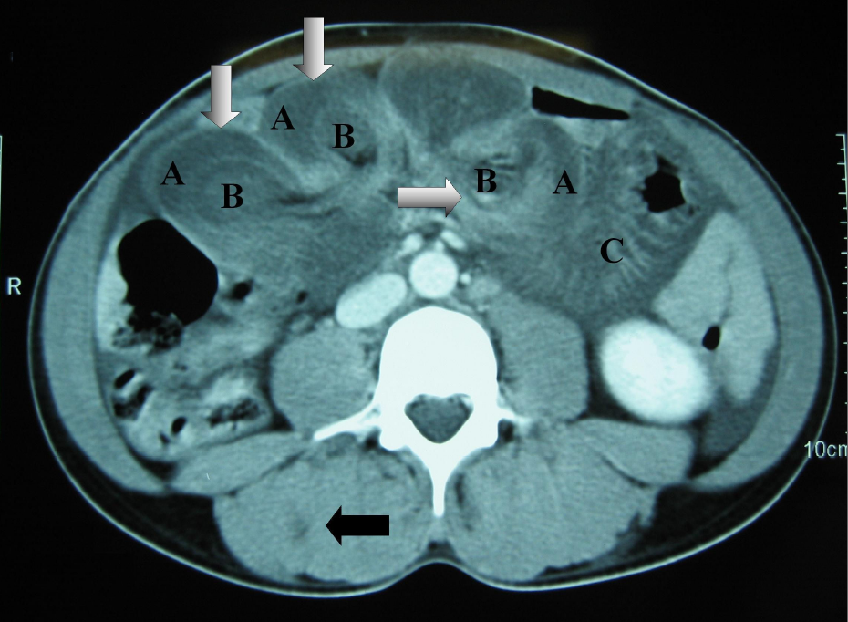 CT scan of abdomen showing i) multiple intussusceptions demonstrating doughnut signs (white arrows), intussusceptiens [A], intussusceptum [B], distended loop of small bowel [C] and ii) haemangioma of right quadratus lumborum muscle (dark arrow).